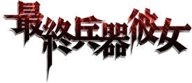 Saikano logo.